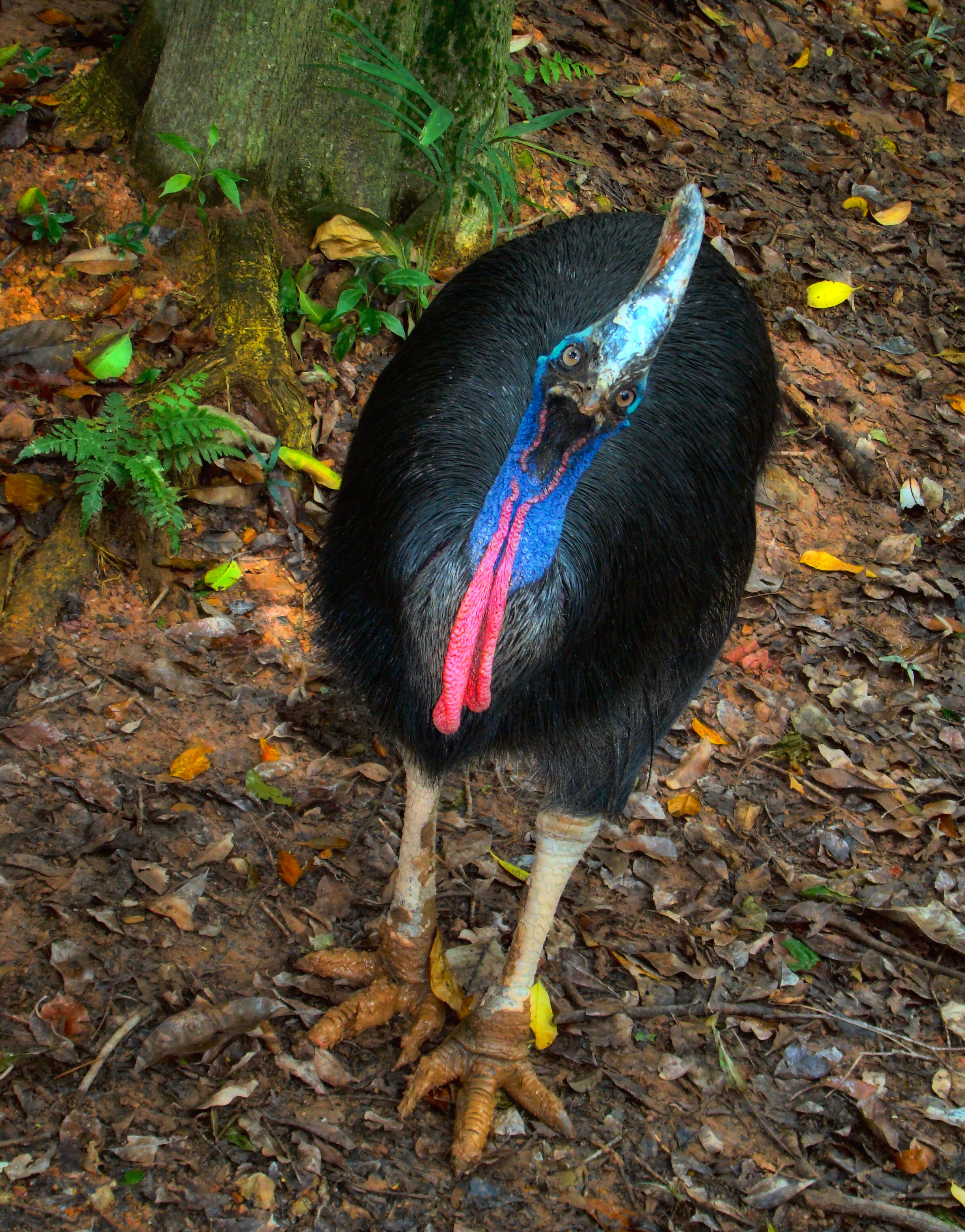 A southern cassowary in the Jurong Bird Park in Singapore.